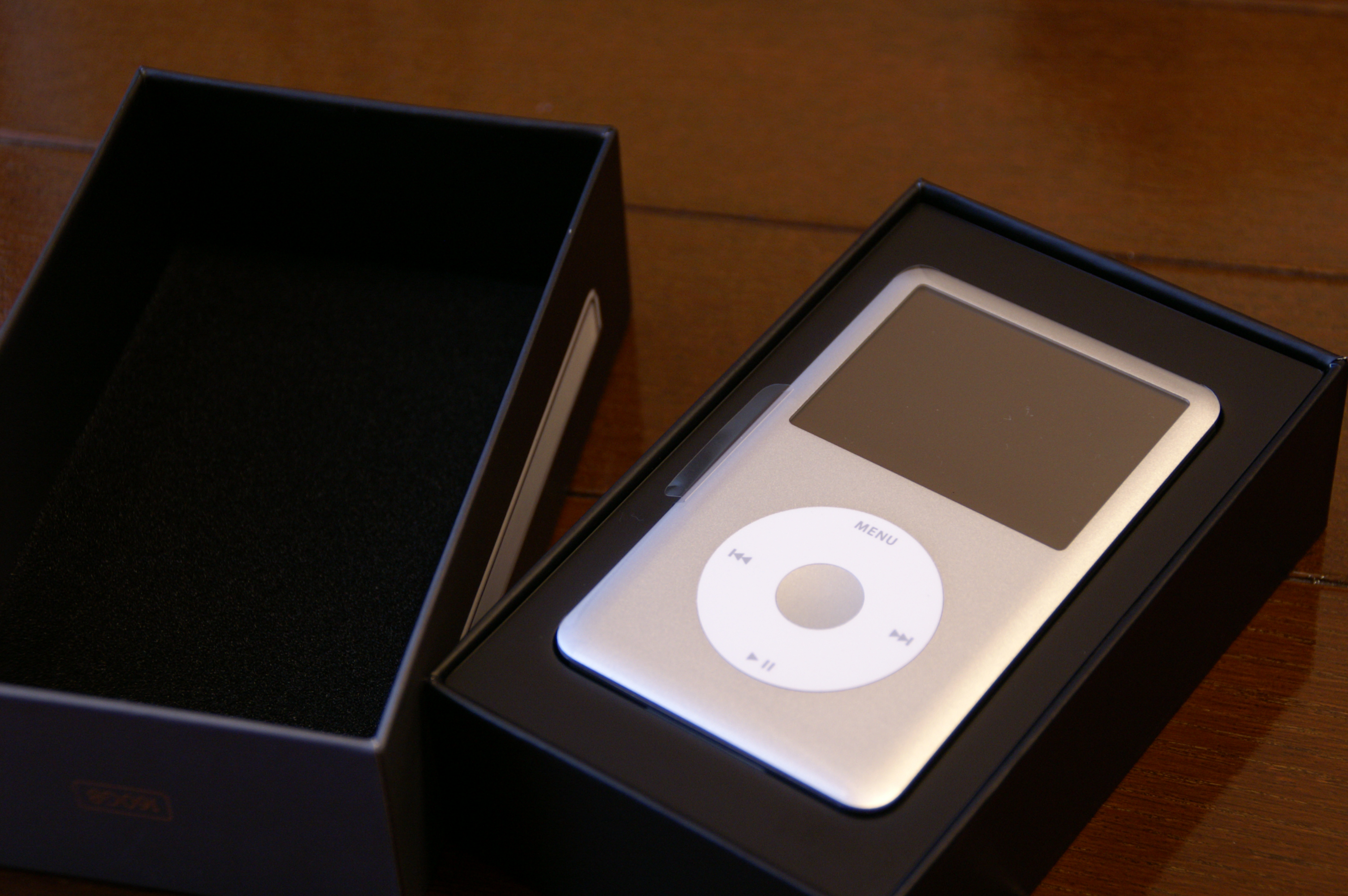 Apple iPod classic (6th gen. 160GB silver) in its box.